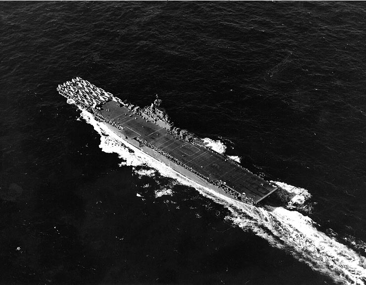 The U.S. Navy aircraft carrier USS Wasp (CV-18) underway at sea in the vicinity of Trinidad, with planes parked forward, apparently in preparation for landing aircraft, 22 February 1944.